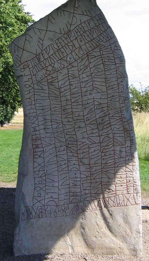 my own pic for wikipedia.